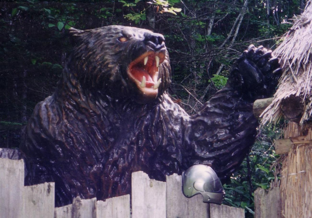 Sankebetsu_BrownBear01